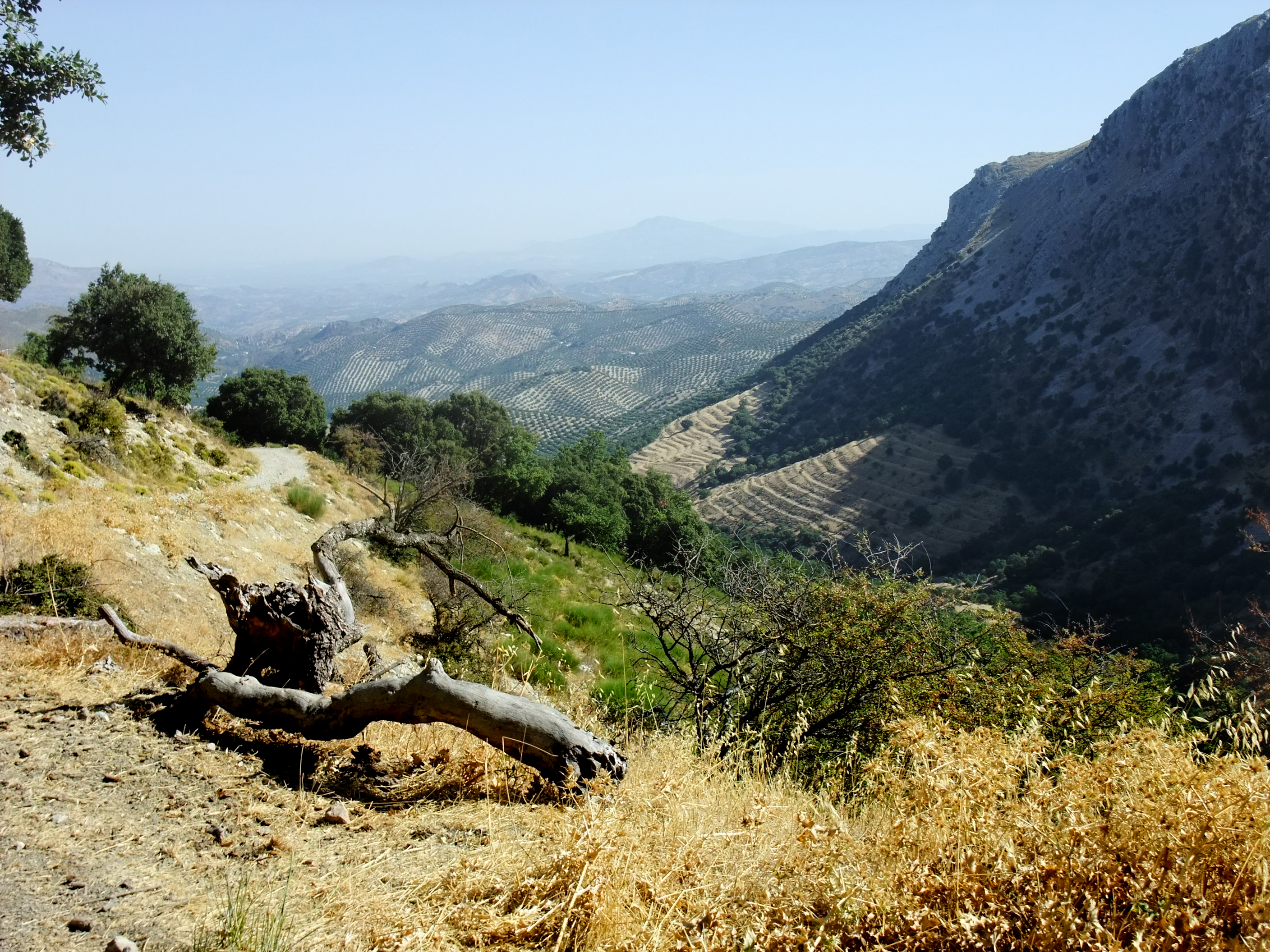 Landscape in Andalusia, Sierra de la Horconera, Province Córdoba in Spain